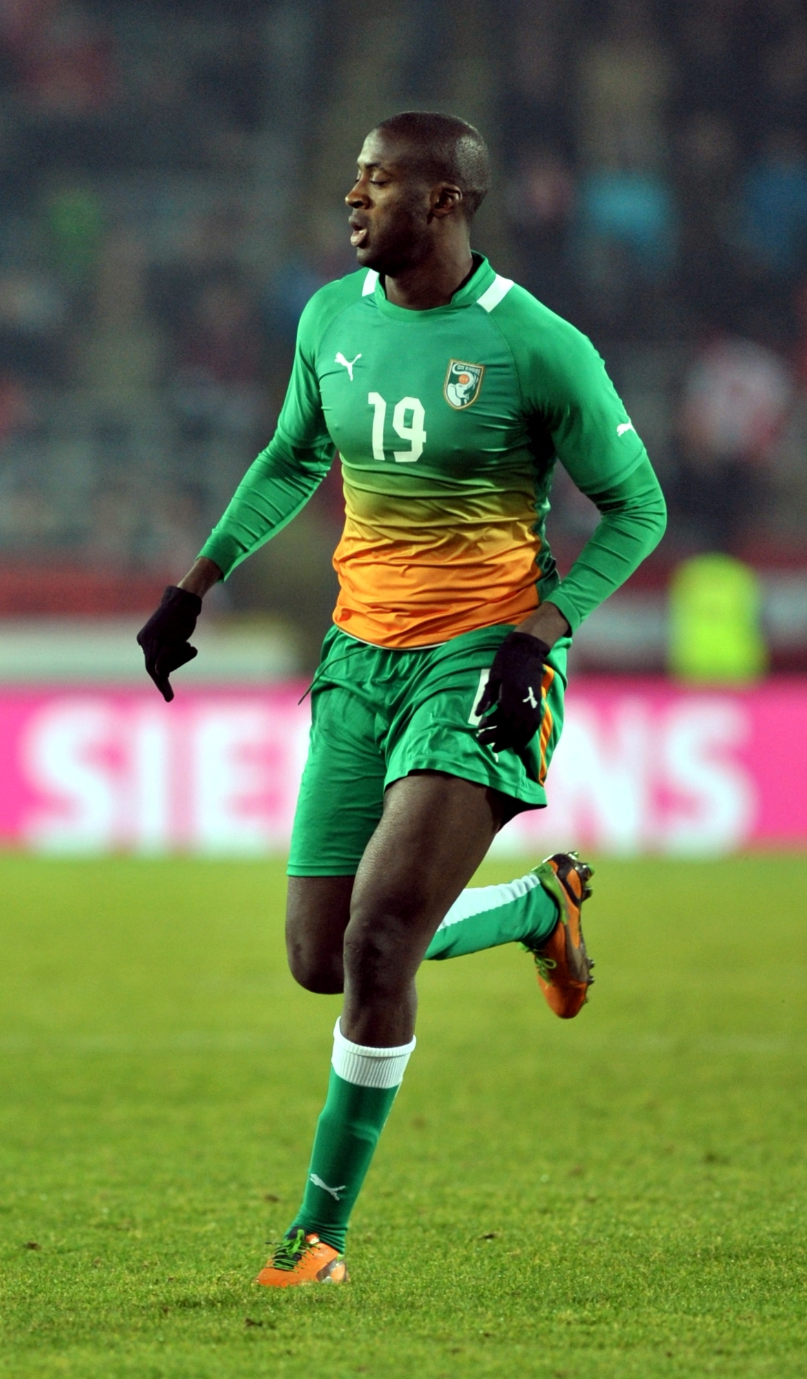 ÖFB freundschaftliches Länderspiel - Österreich vs Elfenbeinküste am 14. November 2012 The making of this work was supported by Wikimedia Austria. For other files made with the support of Wikimedia Austria, please see the category Supported by Wikimedia Österreich. Elfenbeinküste Nr. 19: Yaya Touré